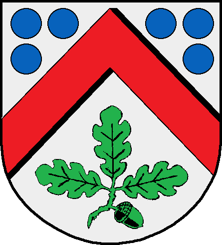 Coat of arms of the municipality Kisdorf in Schleswig-Holstein, Germany.